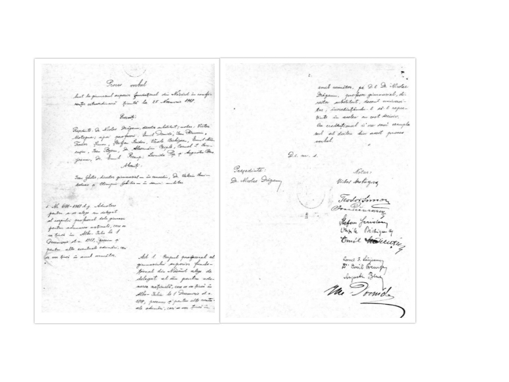 Mandate of the Gymnasium of Năsăud , signed by Victor Motogna,as notary, first in the second column on the down-right side of the second page of the document, deputy in the Great National Assembly from Alba Iulia - Romania, 1918Română: Credenționalul Gimnaziului superior fundațional din Năsăud, semnat de Victor Motogna, în calitate de notar, primul de pe a doua coloană, din partea dreaptă-jos, pe a doua pagina a documentului, deputat în Marea Adunare Națională de la Alba Iulia, 1918